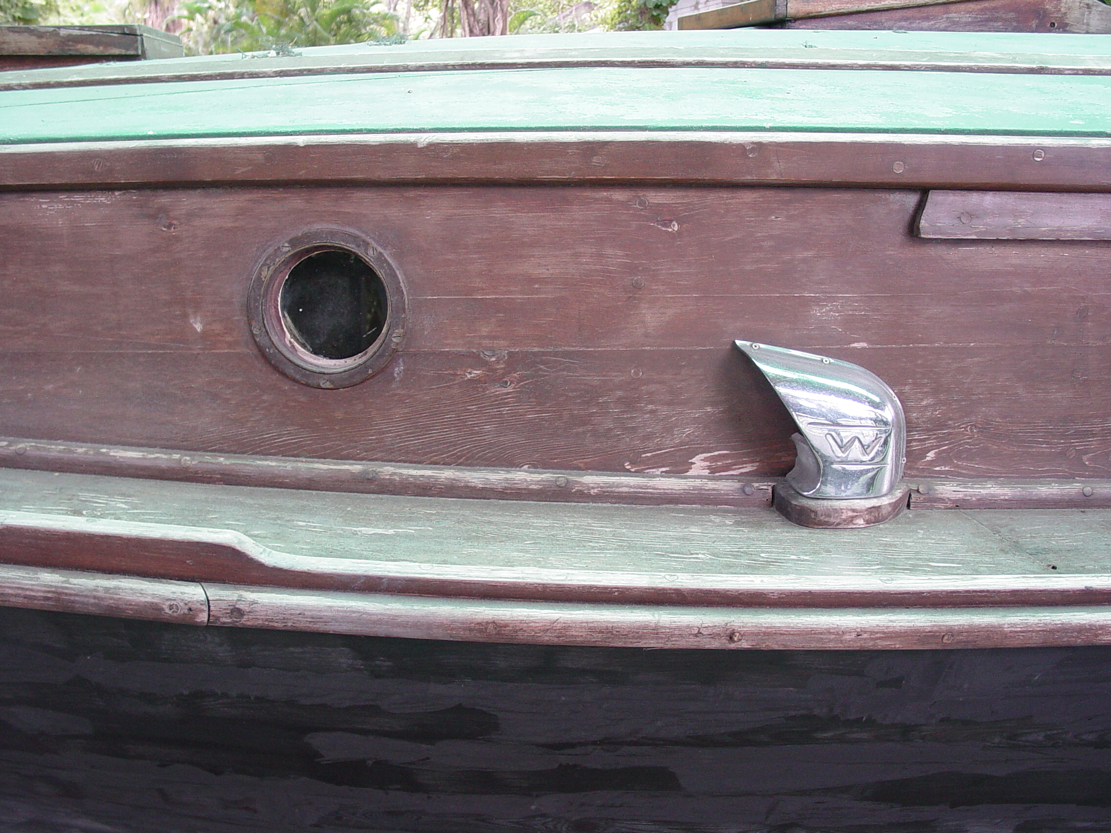 Detail of Ernest Hemingway's boat, the Pilar, at Casa Hemingway, Havana, Cuba. December 2006.